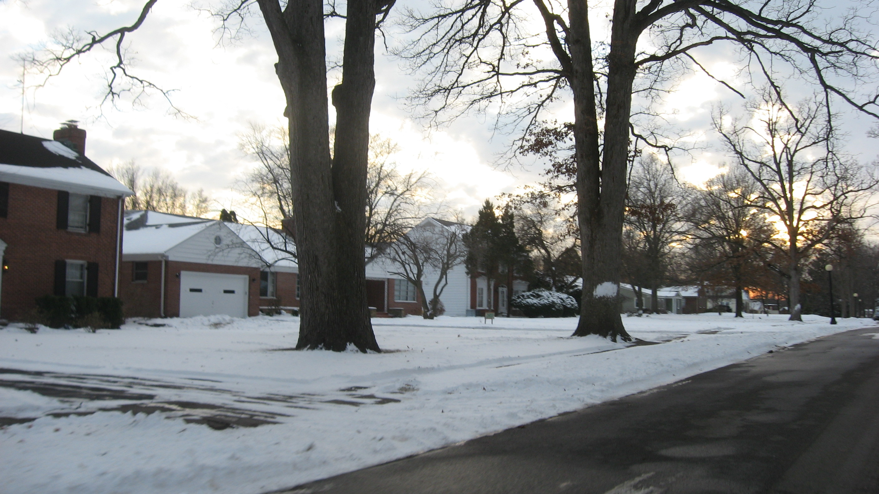 Houses at 3425, 3433, and 3443 N. Washington Road in Fort Wayne, Indiana, United States. This block is part of the Wildwood Park Historic District, a historic district that is listed on the National Register of Historic Places.